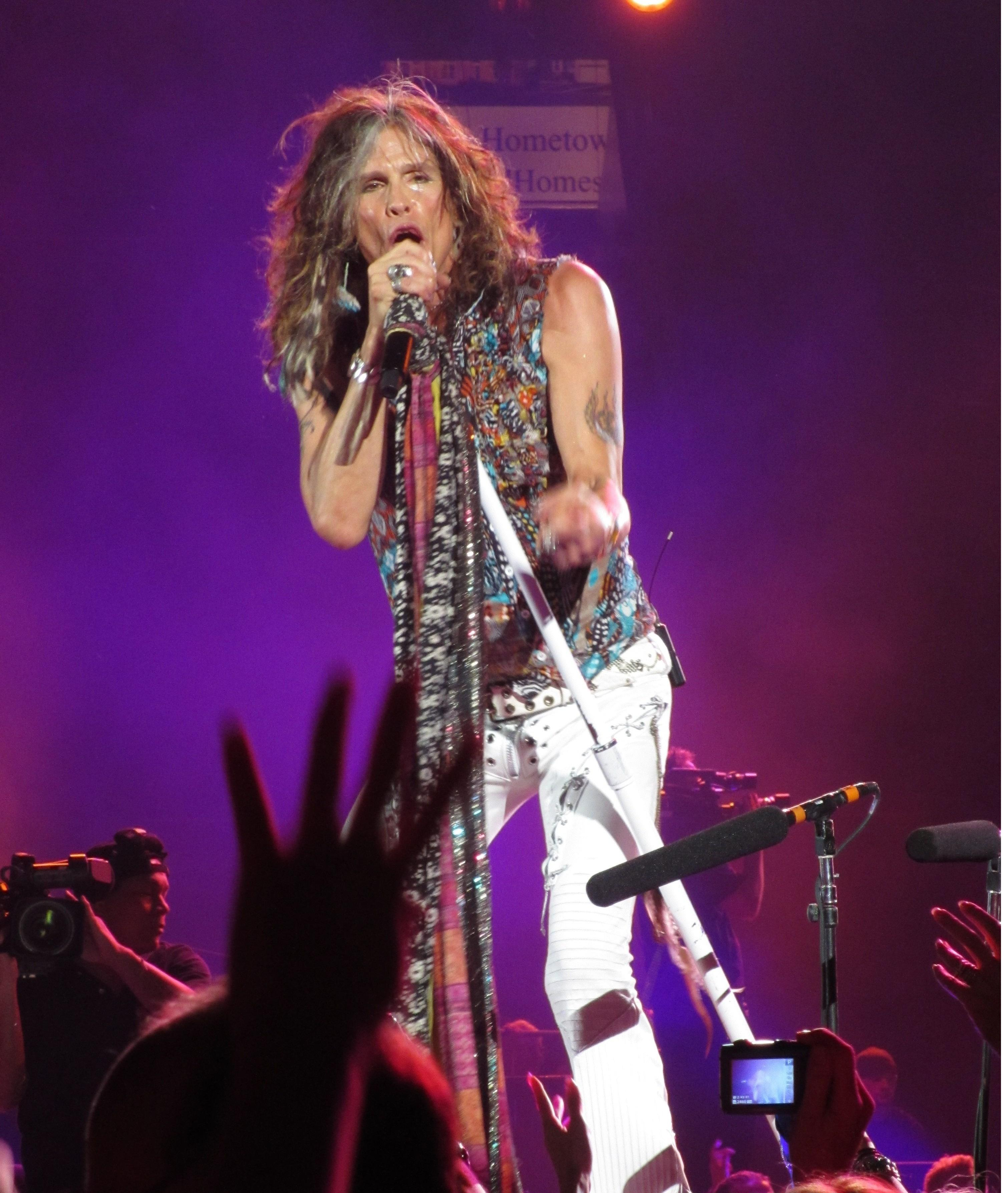 Tyler performing with Aerosmith at the Nassau Colliseum on July 1, 2012